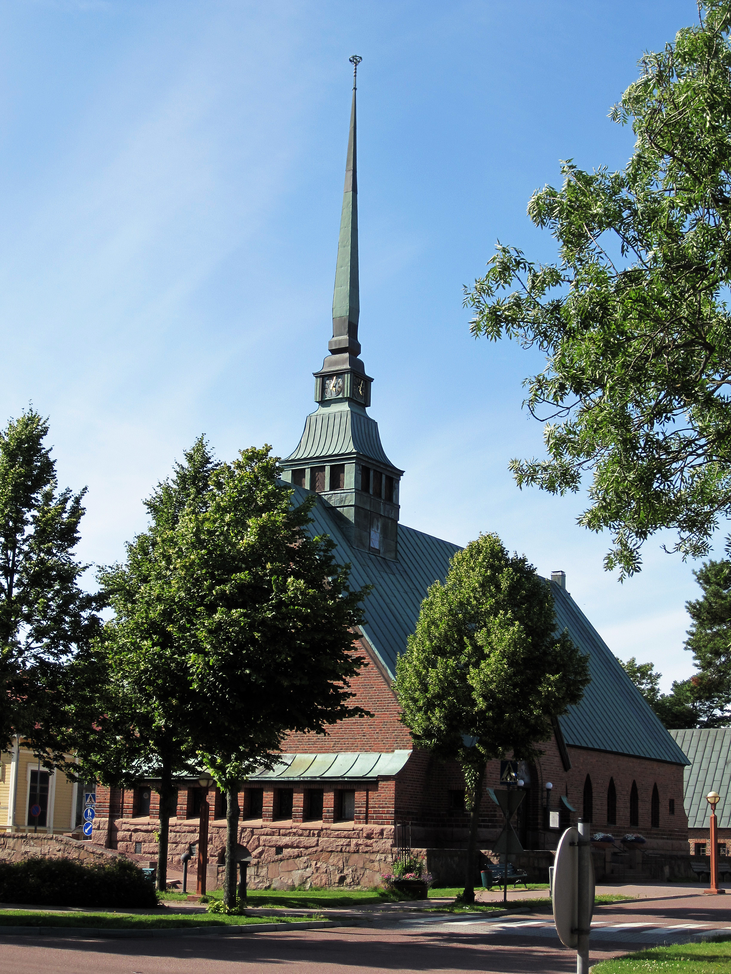 Saint George Church in Mariehamn, Åland, Finland